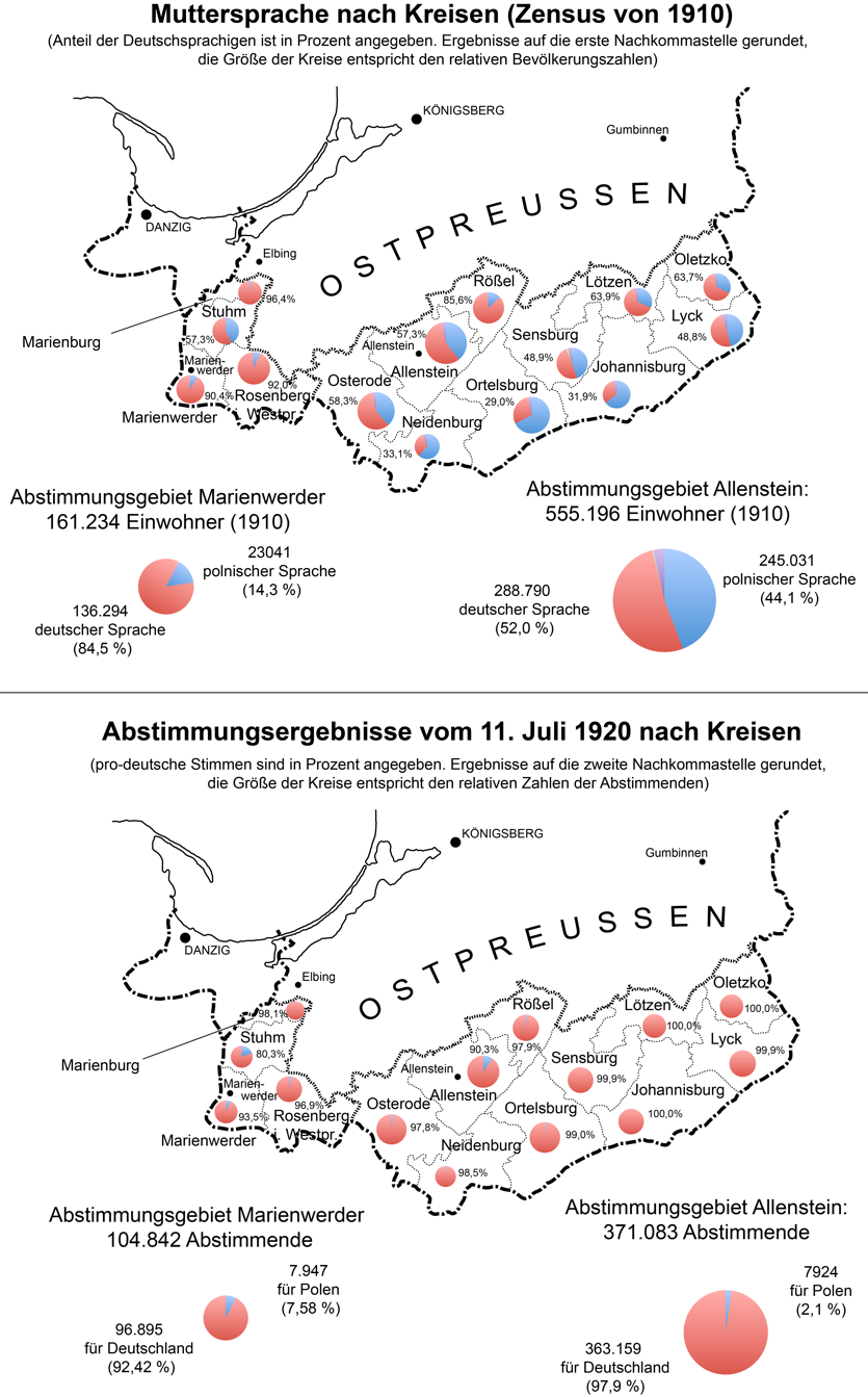 Mother tongue (German, Polish, bilingual, others) according to the 1910 census and results of the East Prussian plebiscites on July 11th 1920.